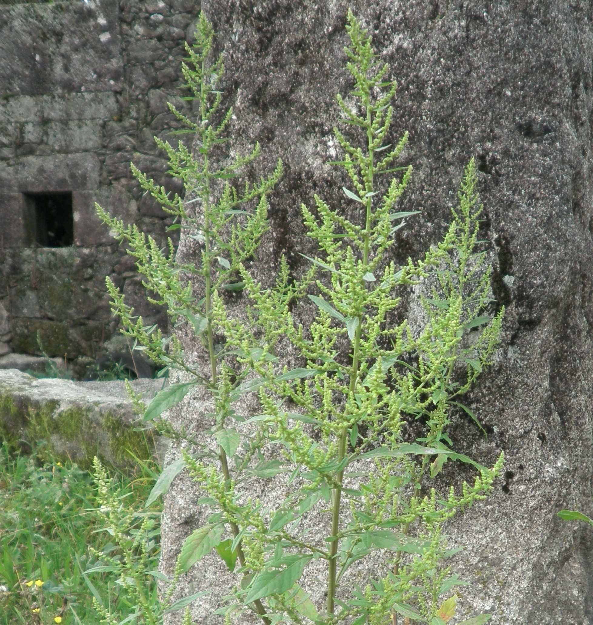 Dysphania ambrosioides